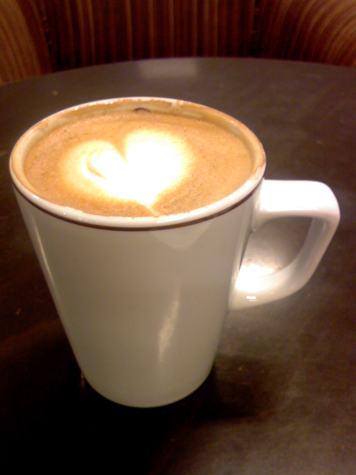 Coffee for Love